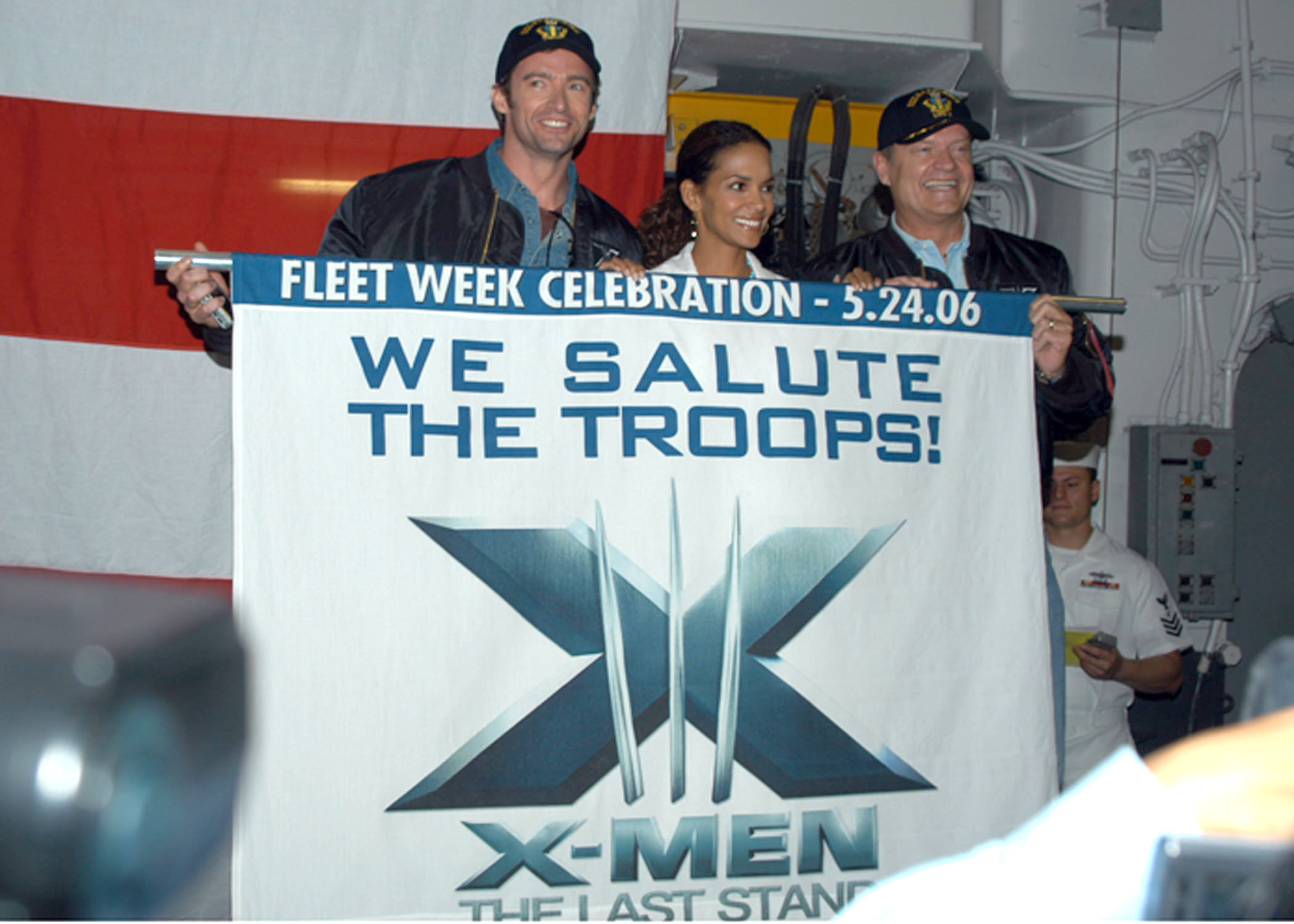 New York Harbor (May 24, 2006) - In the hangar bay aboard amphibious assault ship USS Kearsarge (LHD 3), actors Hugh Jackman, AKA "Wolverine," Ms. Halle Berry, AKA "Storm," and Kelsey Grammer, AKA "Dr. Henry McCoy," display a banner announcing the premiere of their latest movie, the upcoming 20th Century Fox action, sci-fi, "X-Men: The Last Stand." The stars and were aboard to visit with Sailors and embarked Marines during the opening day of Fleet Week New York 2006. The crew was also given a special sneak preview of the film before its worldwide release date of May 26, 2006. Fleet Week has been sponsored by New York City since 1984 in celebration of the United States sea service. The annual event also provides an opportunity for citizens of New York City and the surrounding Tri-State area to meet Sailors, and Marines, as well as witness first hand the latest capabilities of today's Navy and Marine Corps team. Fleet week includes dozens of military demonstrations and displays, including public tours of many of the participating ships. U.S. Navy photo by Photographer's Mate Airman Dennard Vinson (RELEASED)